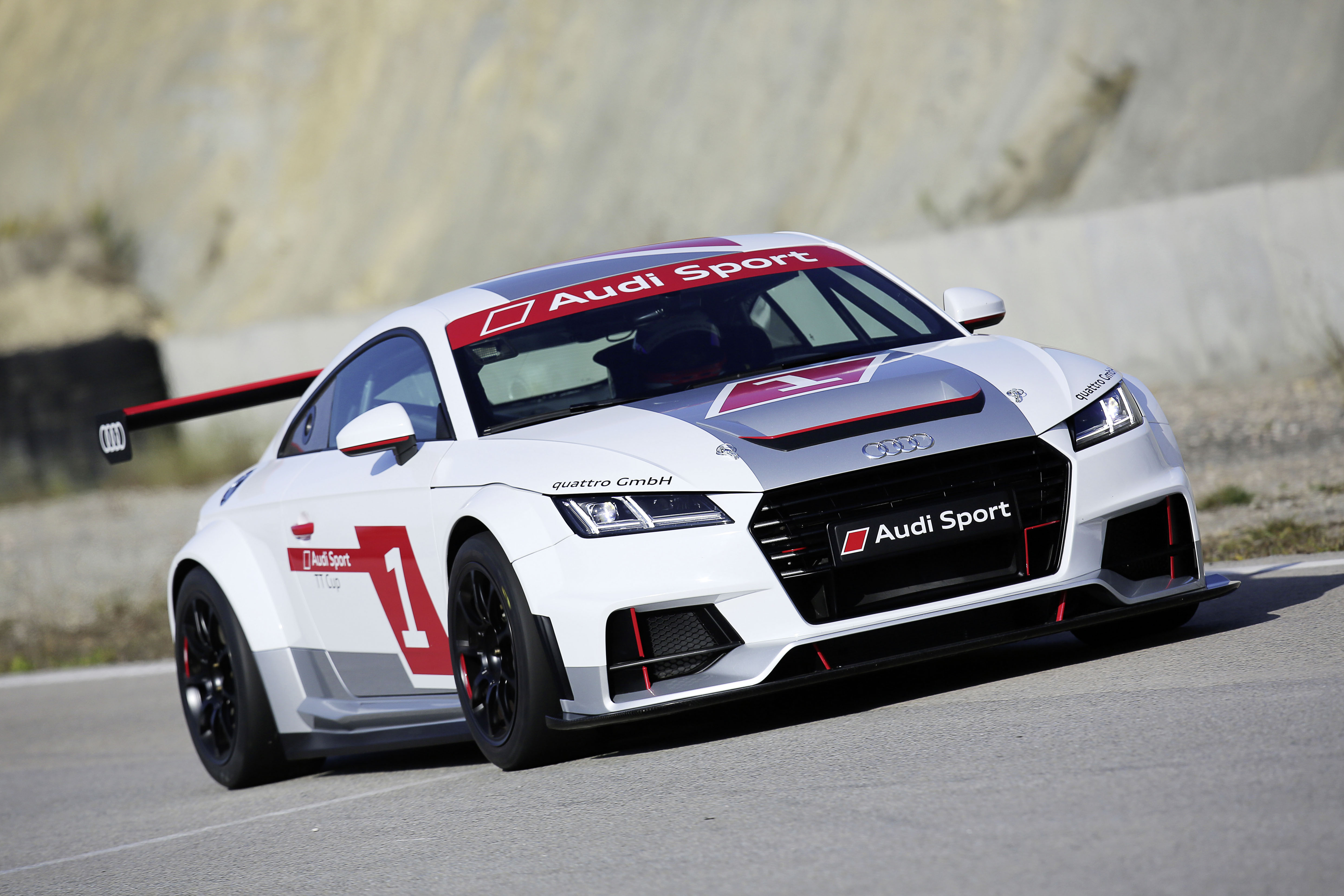 Audi TT cup